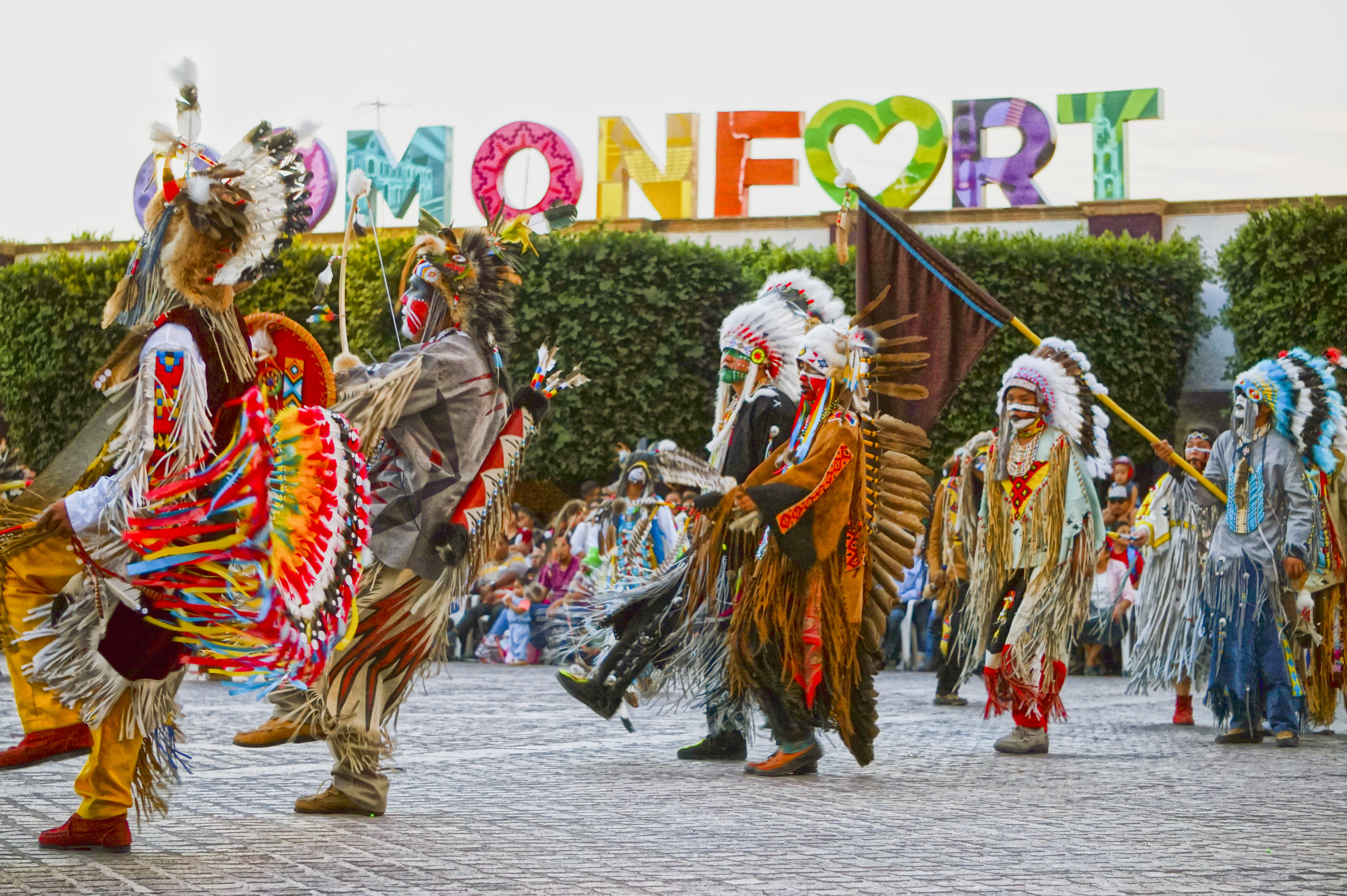 prehispanical dance festival This photo has been taken in the country: Mexico